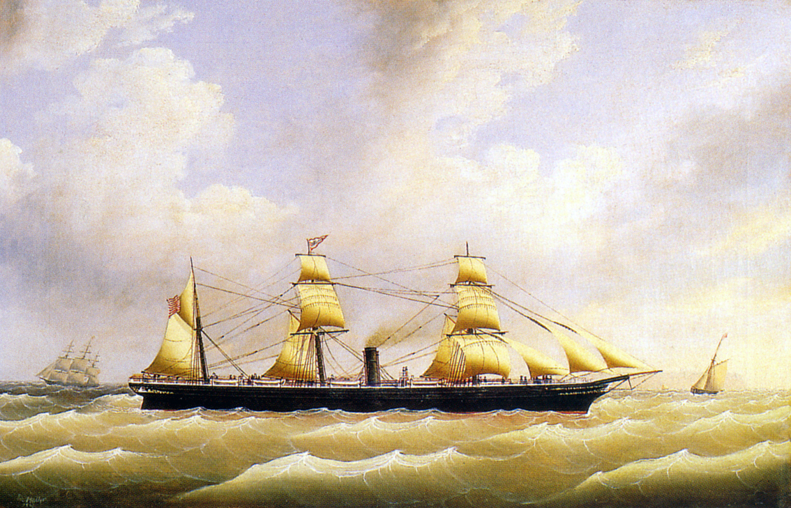 Ocean steamer Bremen, built 1858 for the Norddeutscher Lloyd and stranded in 1882 at the coast of California.